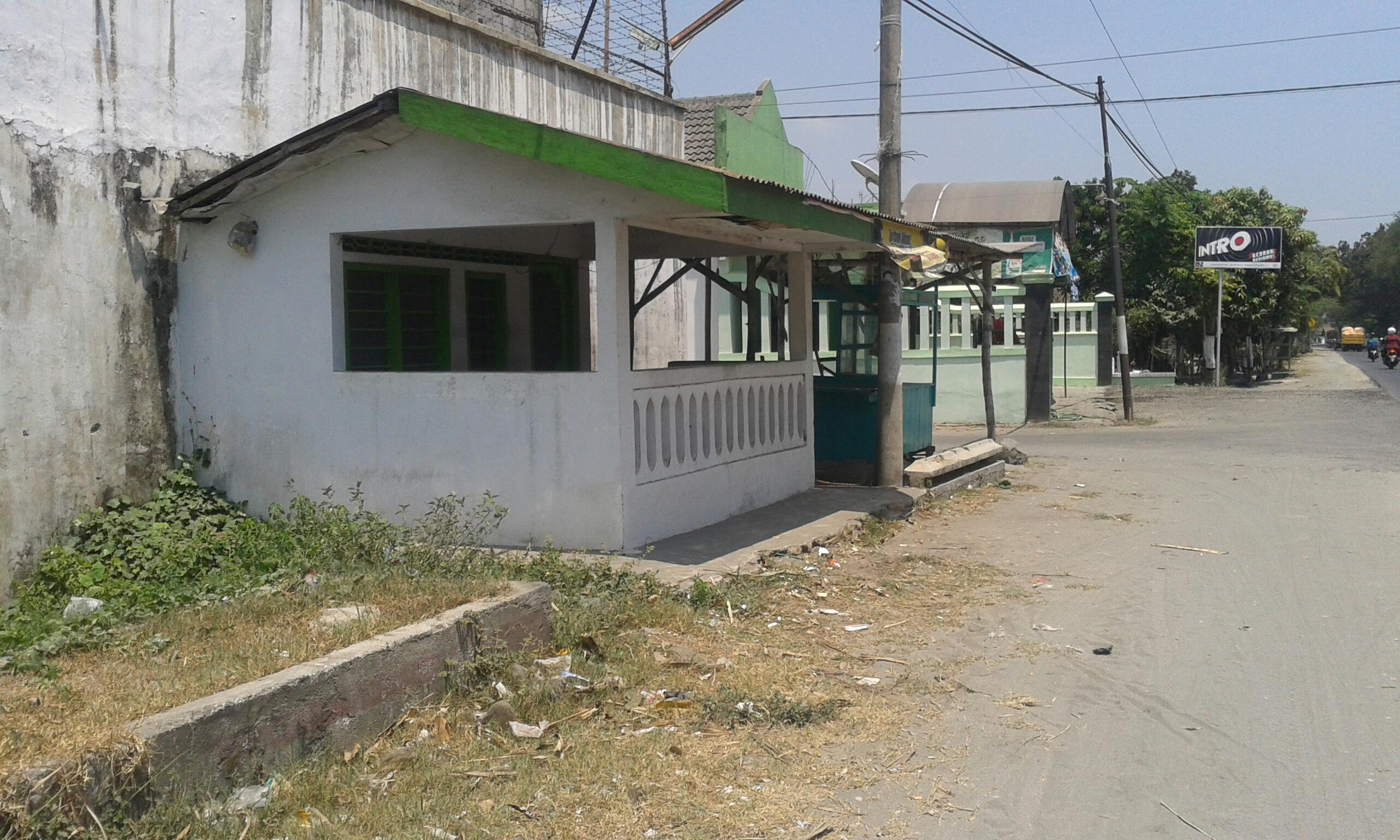 Halte Adanadan